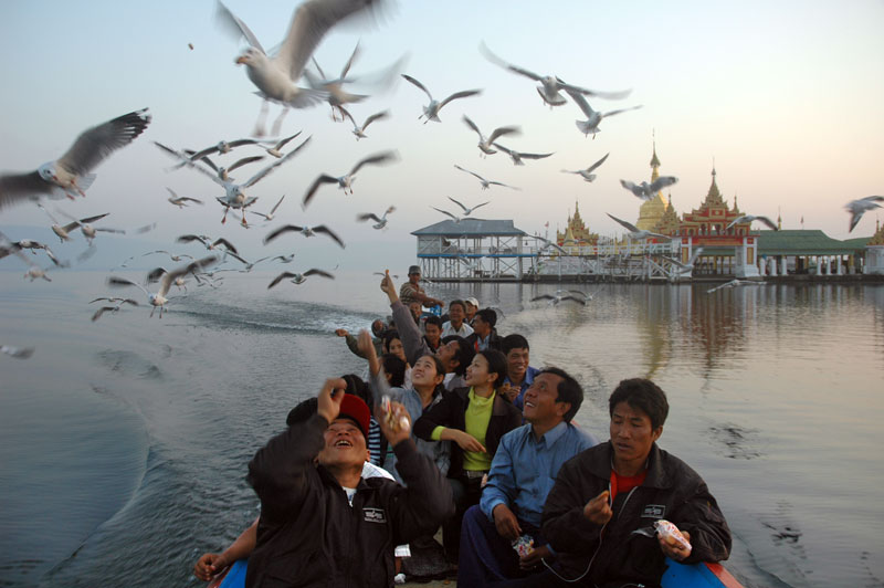 Indawgyi Lake and Indawgyi Pagoda located in Kachin State of Myanmar.